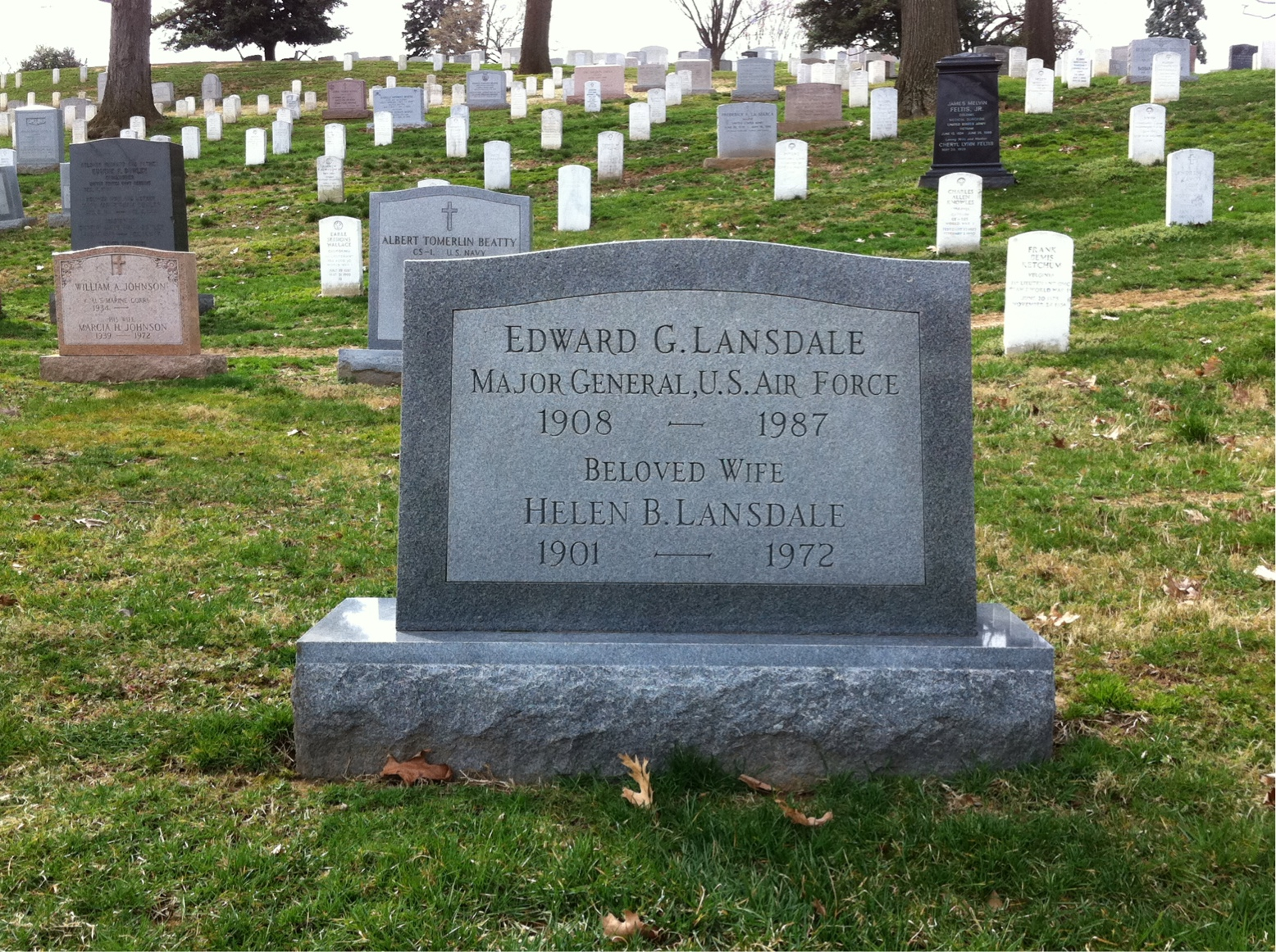 Grave of Edward Lansdale at Arlington National Cemetery